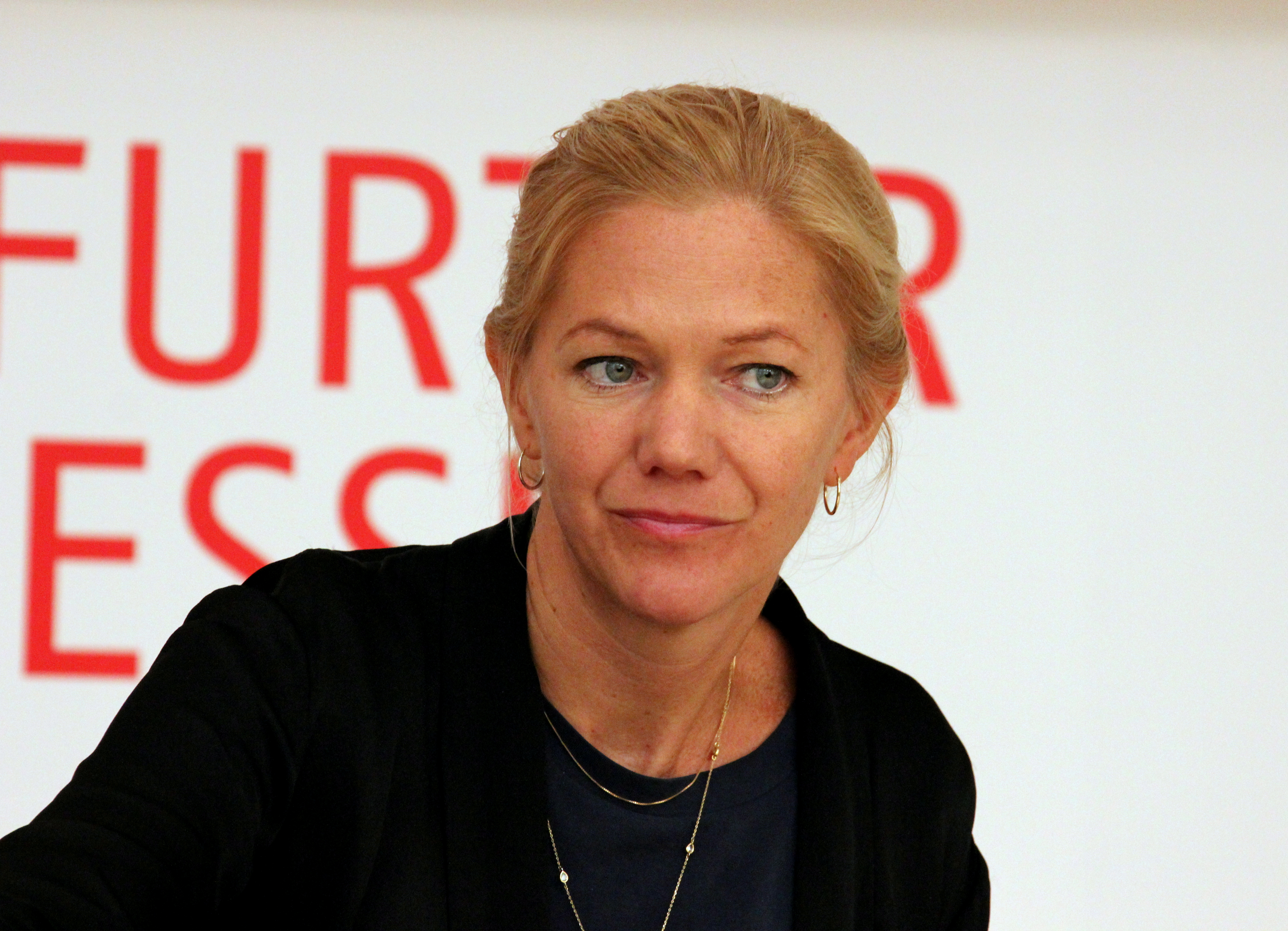 Maja Lunde Frankfurt Book Fair 2018